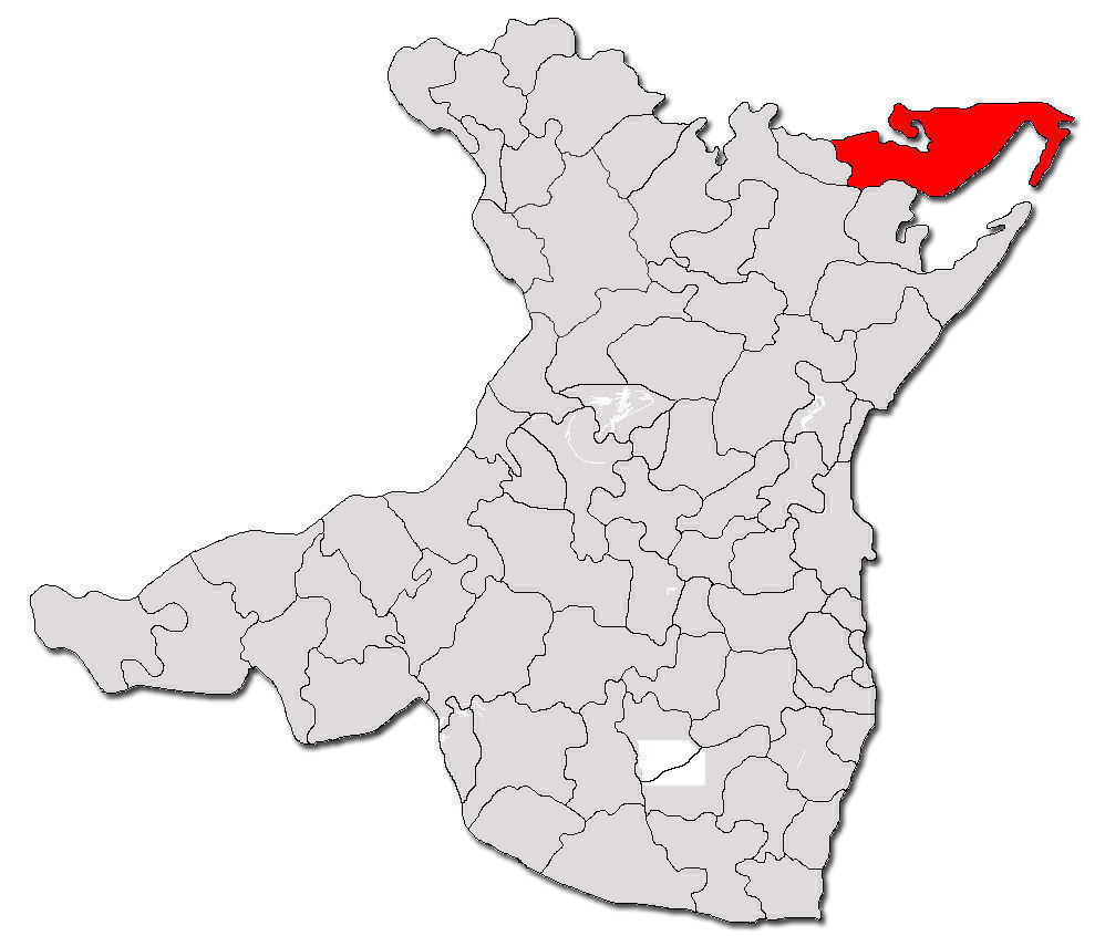 Countour map of Mihai Viteazu commune